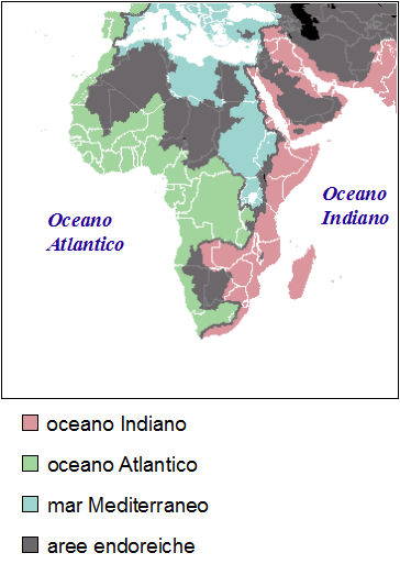 Drainage basin map - Africa. Italian language